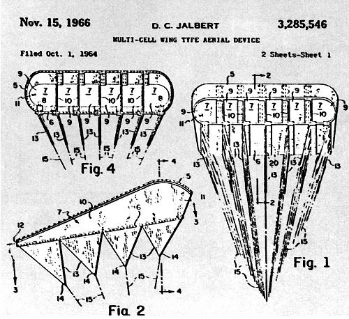 Patentzeichnung des Parafoil 1964/1966